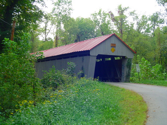 Northwestern end and northeastern side of the Eakin Mill Covered Bridge, which carries Mound Hill Road over Raccoon Creek north of Arbaugh in Vinton Township, Vinton County, Ohio, United States. Built in 1870, it is listed on the National Register of Historic Places.